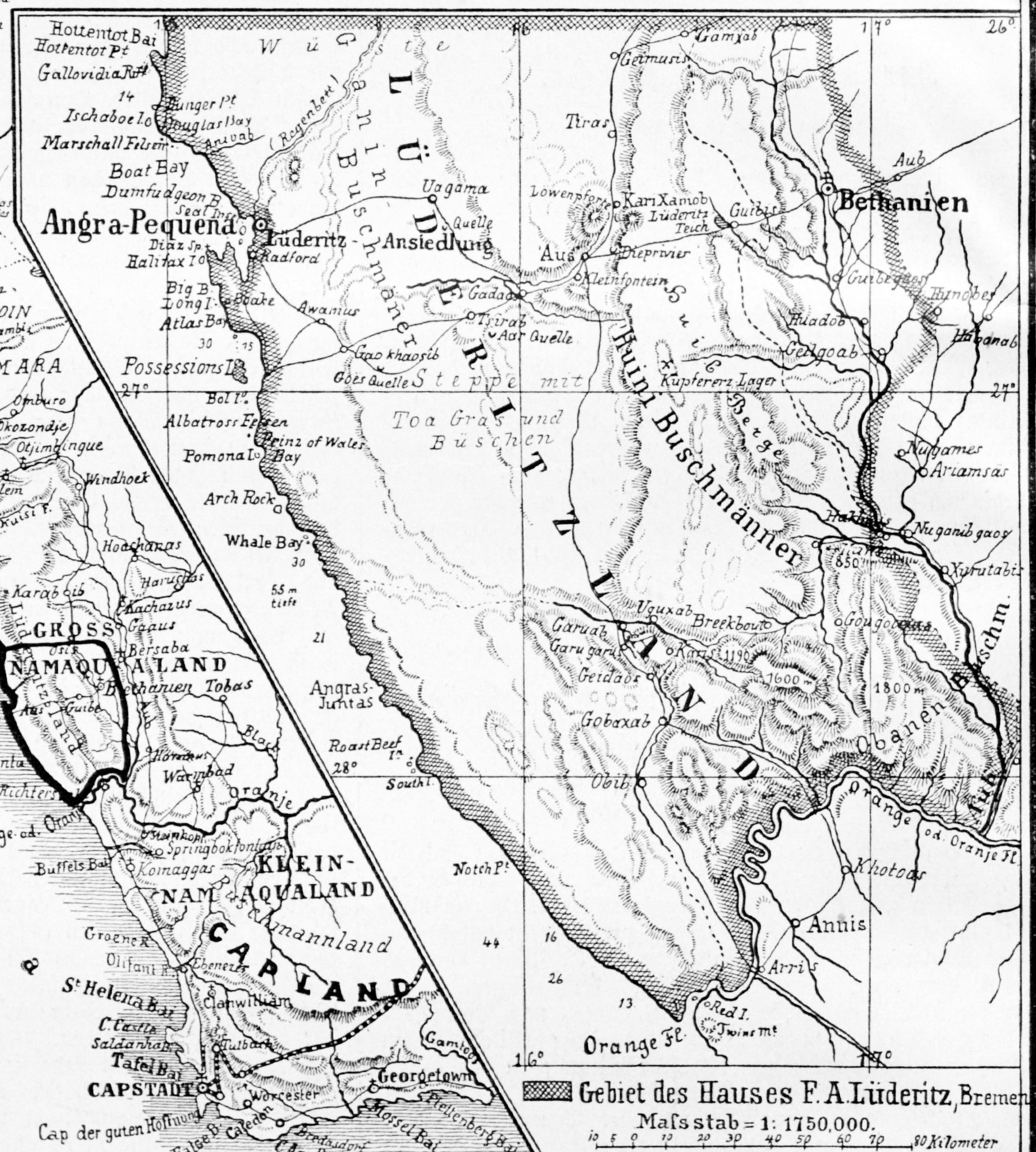 Lüderitzland in early German South-West Africa